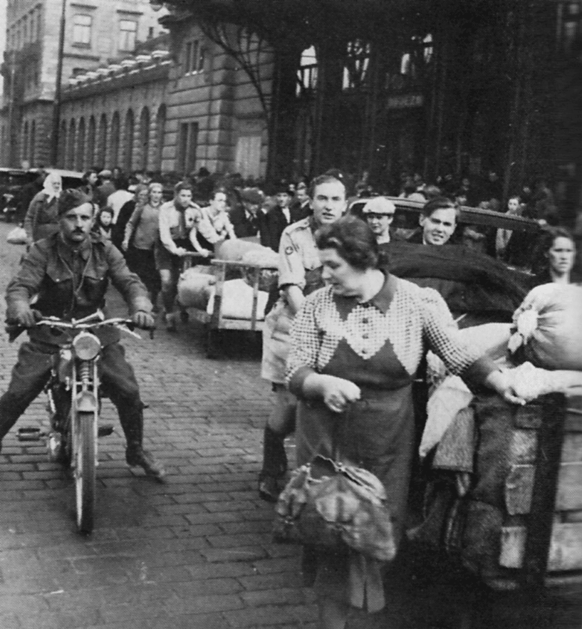 Arrival of refugees from the Czech border at the Wilson railway station in Prague